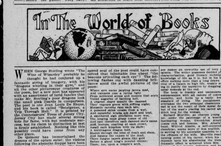 Excerpt of "In the World of Books," highlighting the publication of Betelguese, a trip through hell. To supplement the en.wp article.